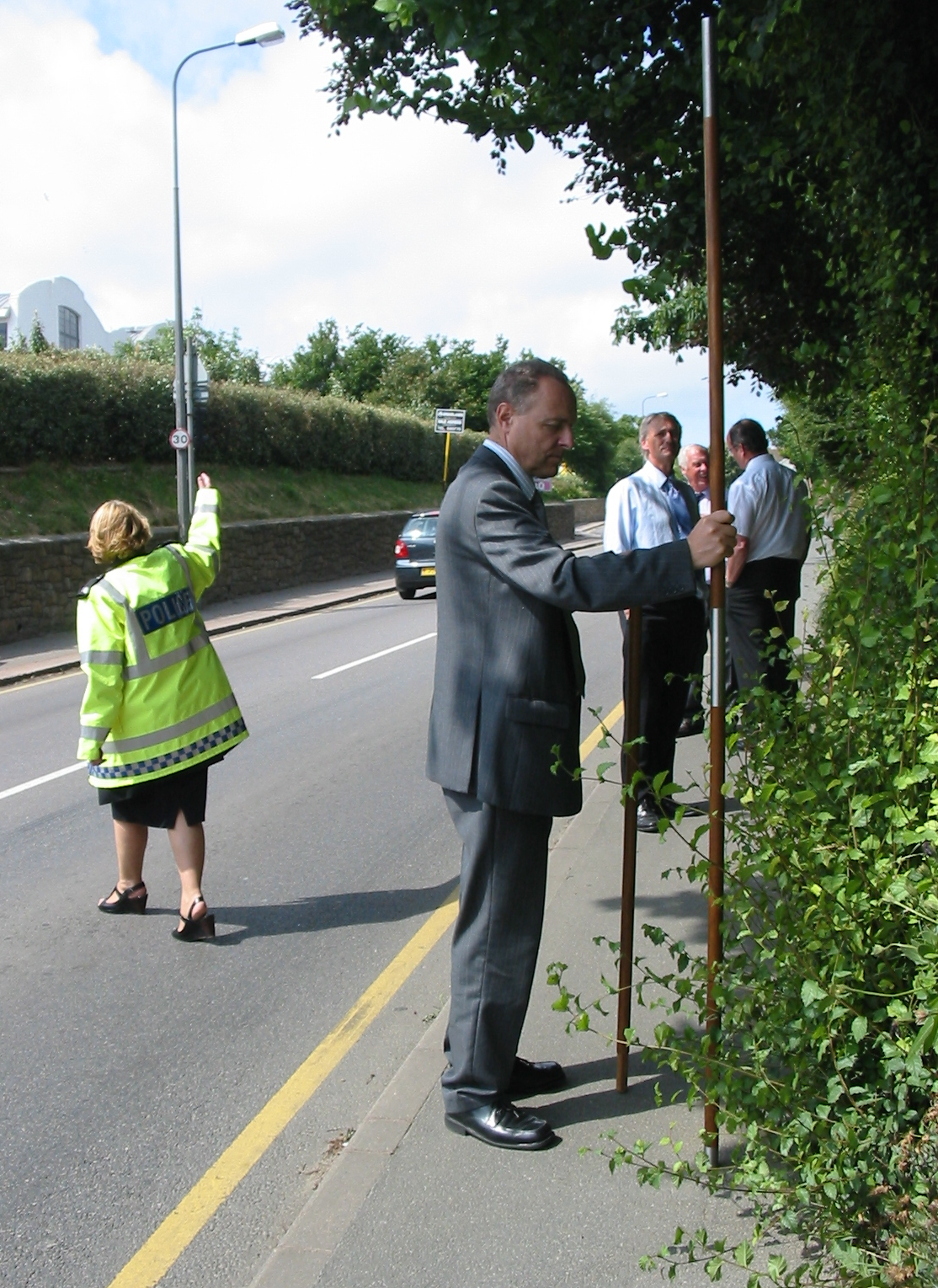 Visite du Branchage, Saint Helier, Jersey, July 2009